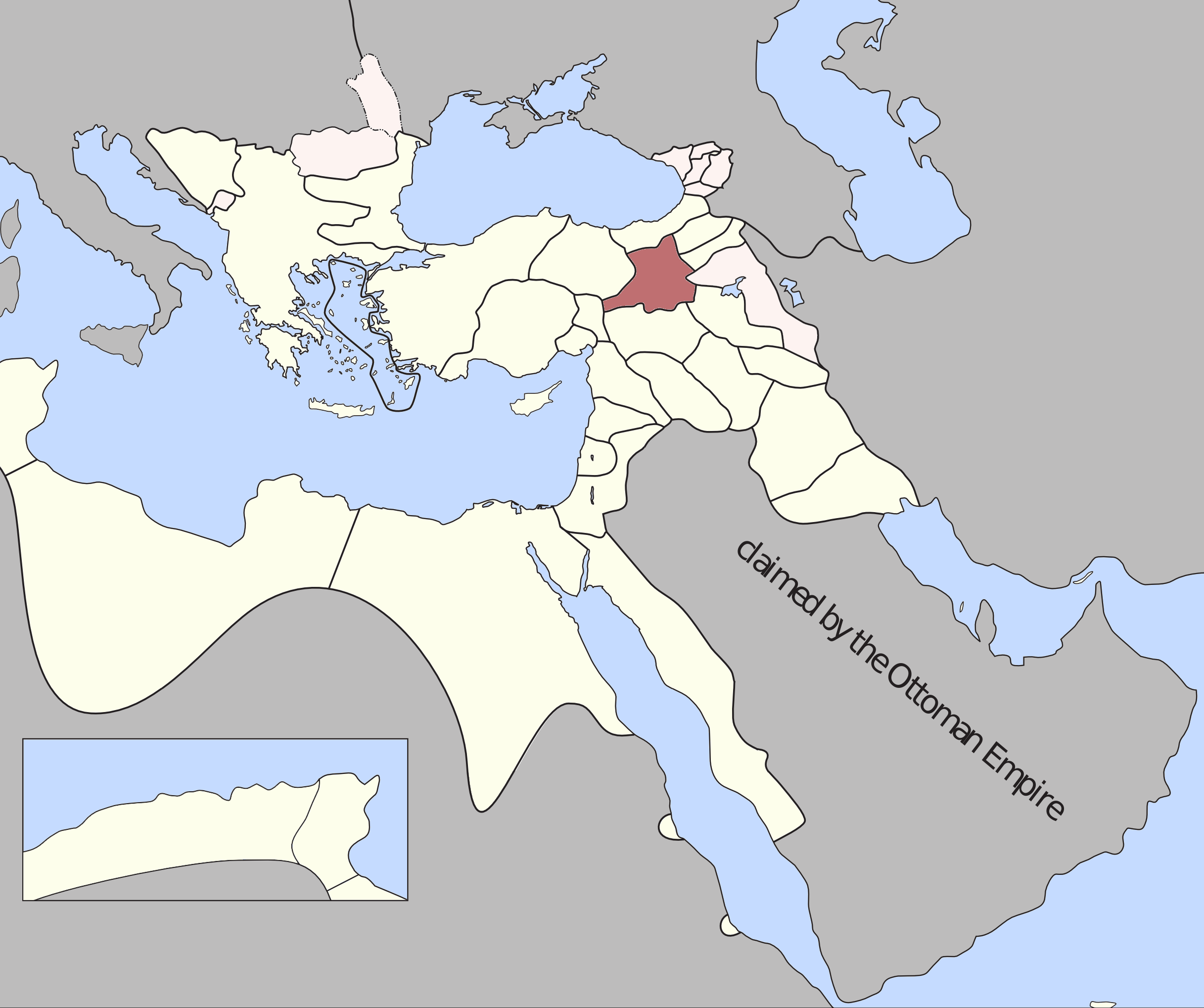 XY Eyalet, Ottoman Empire (1795). Source: A Brief History of the Late Ottoman Empire at Google Books By M. Sukru Hanioglu, Figure 1